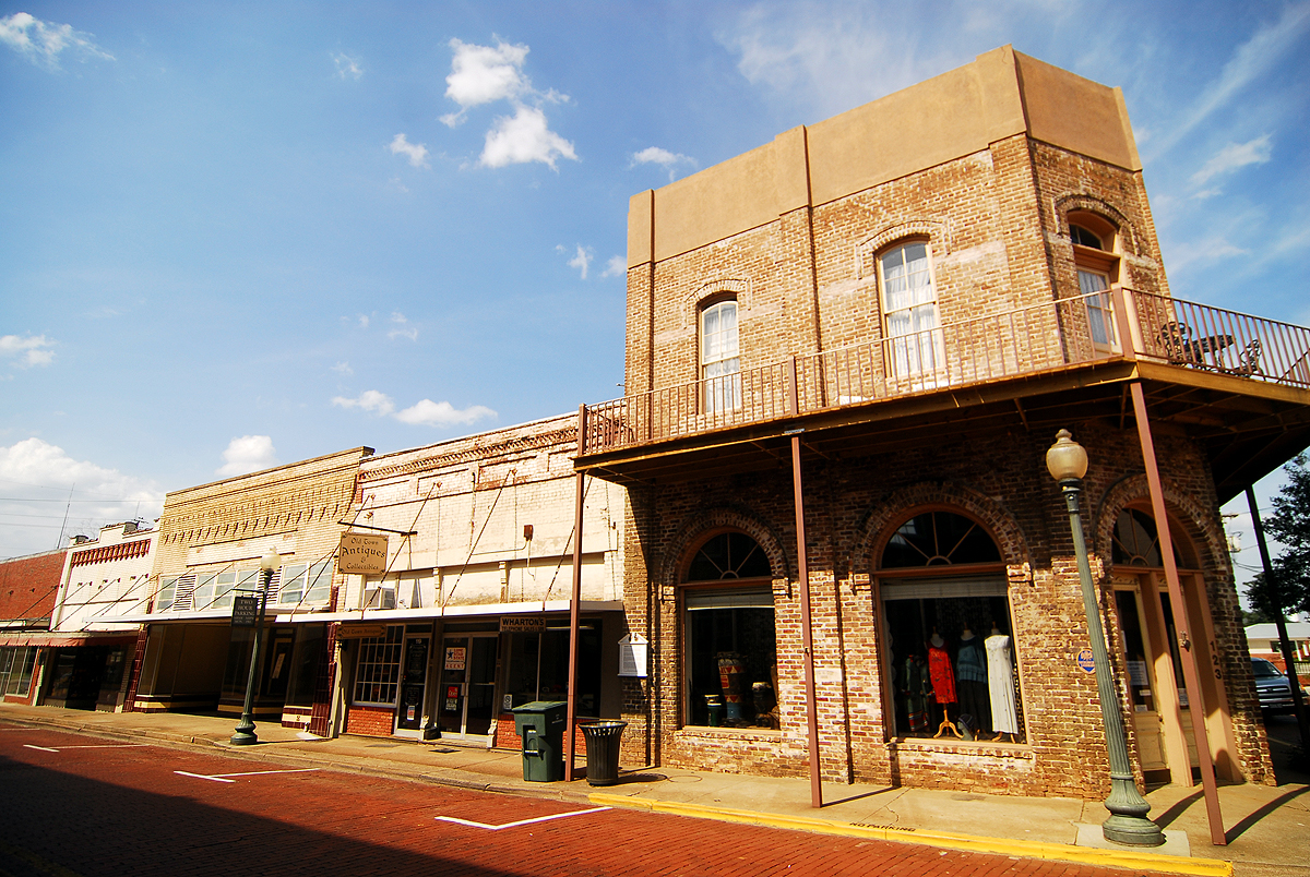 Part of historic downtown Nacogdoches, Texas